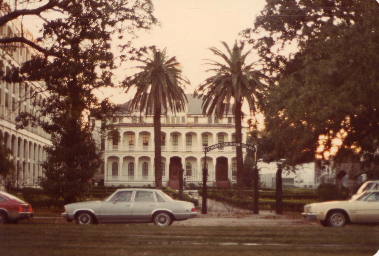 New Orleans: St. Mary's Dominican College, about 1980. College has since closed down; campus is now a satillite campus of Loyola University New Orleans.